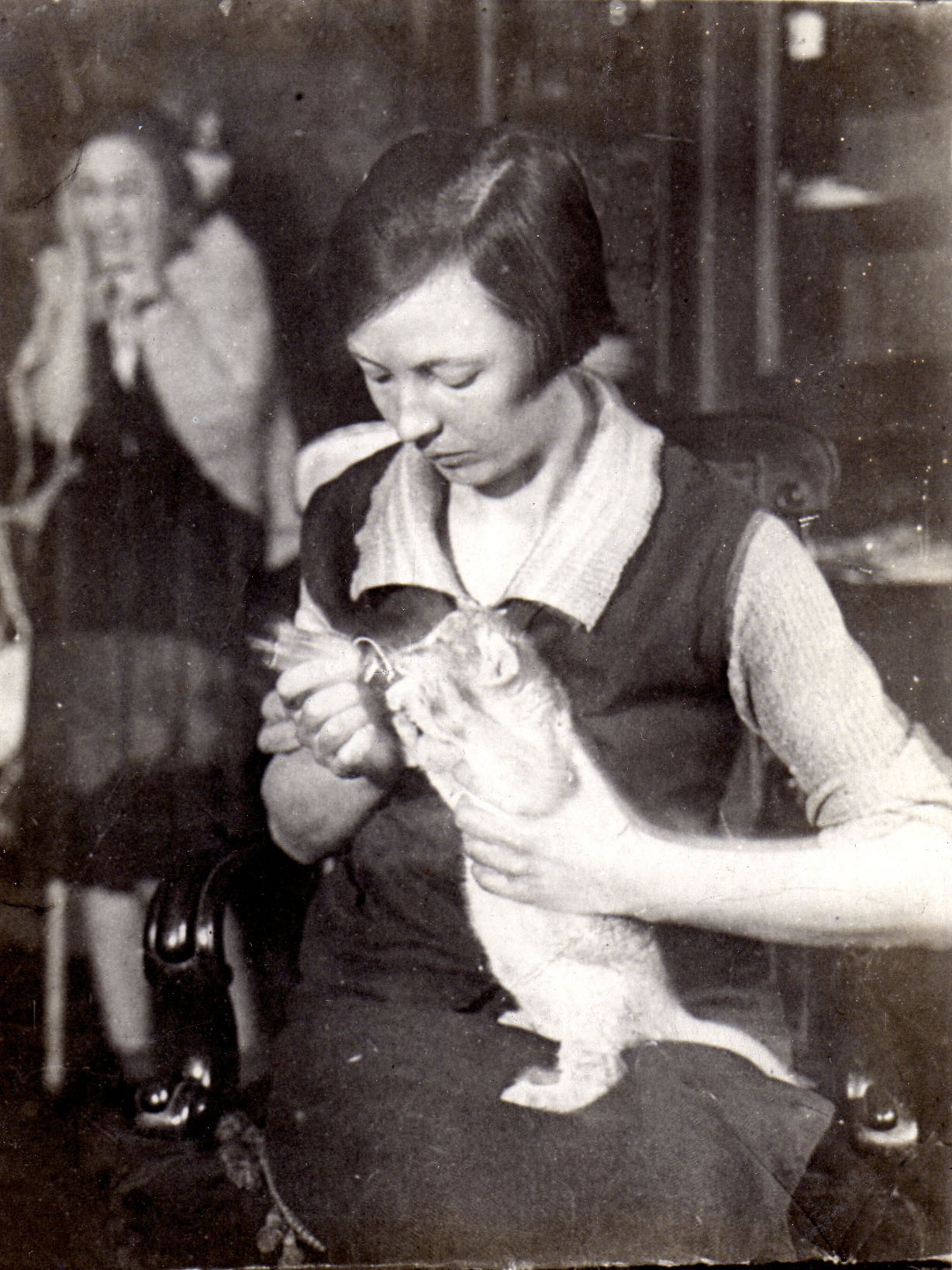 Soviet children's literature writer, naturalist Vera Chaplina (1908 – 1994) feeds the lioness Kinuli at home. Moscow, summer 1935.